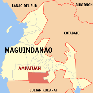 Map of the Maguindanao showing the location of Ampatuan